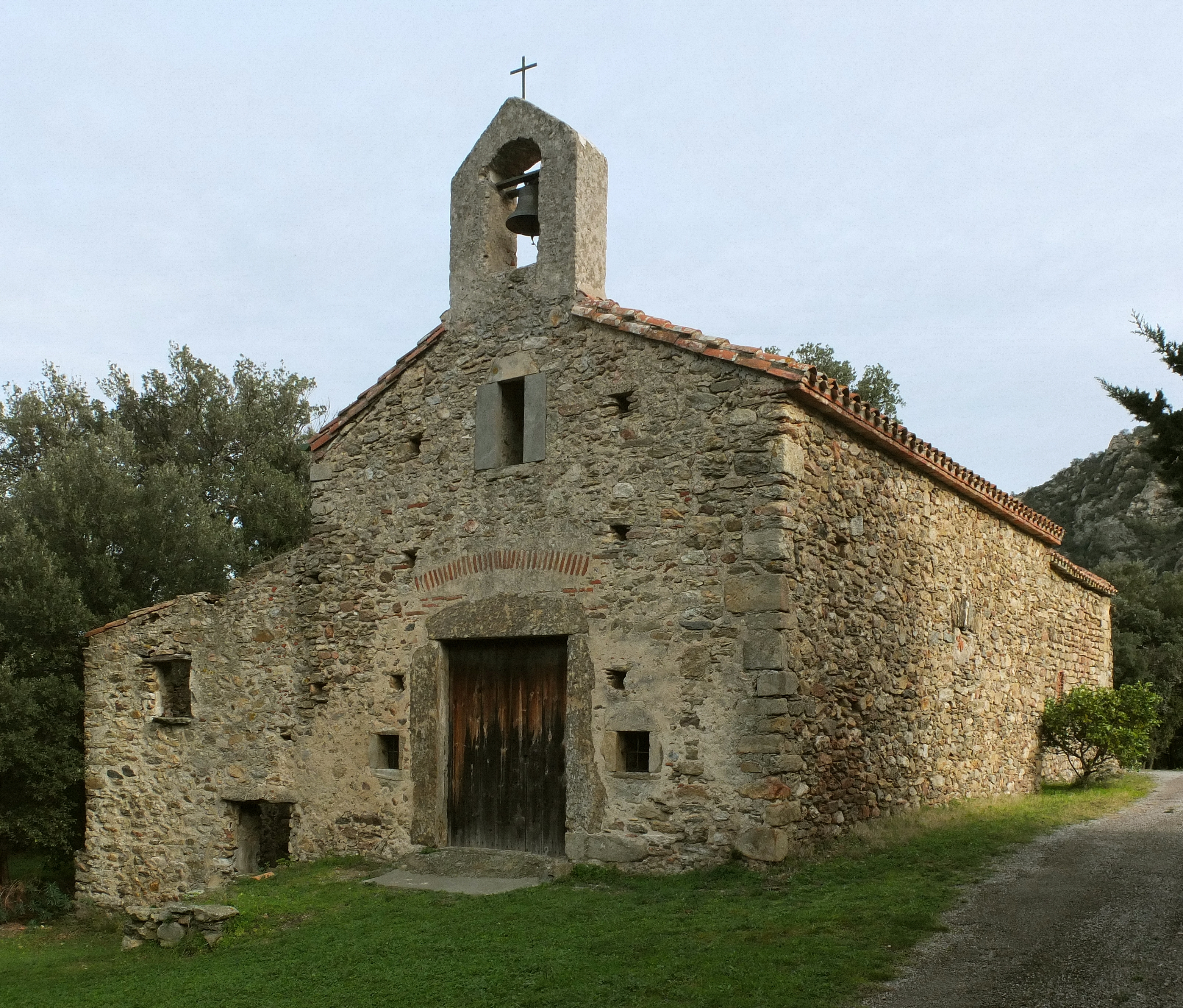 The chapel Saint-Ferréol de la Pava or Sant Ferriol de la Pava is a 10th ctry. church situated at the hamlet La Pave (near Argelès-sur-Mer) (view SW)